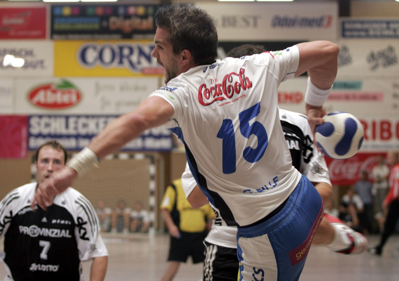 Guillaume Gille , the Frenche handball players from HSV Hamburg, during the Schlecker Cup 2007 in Ehingen (Germany)